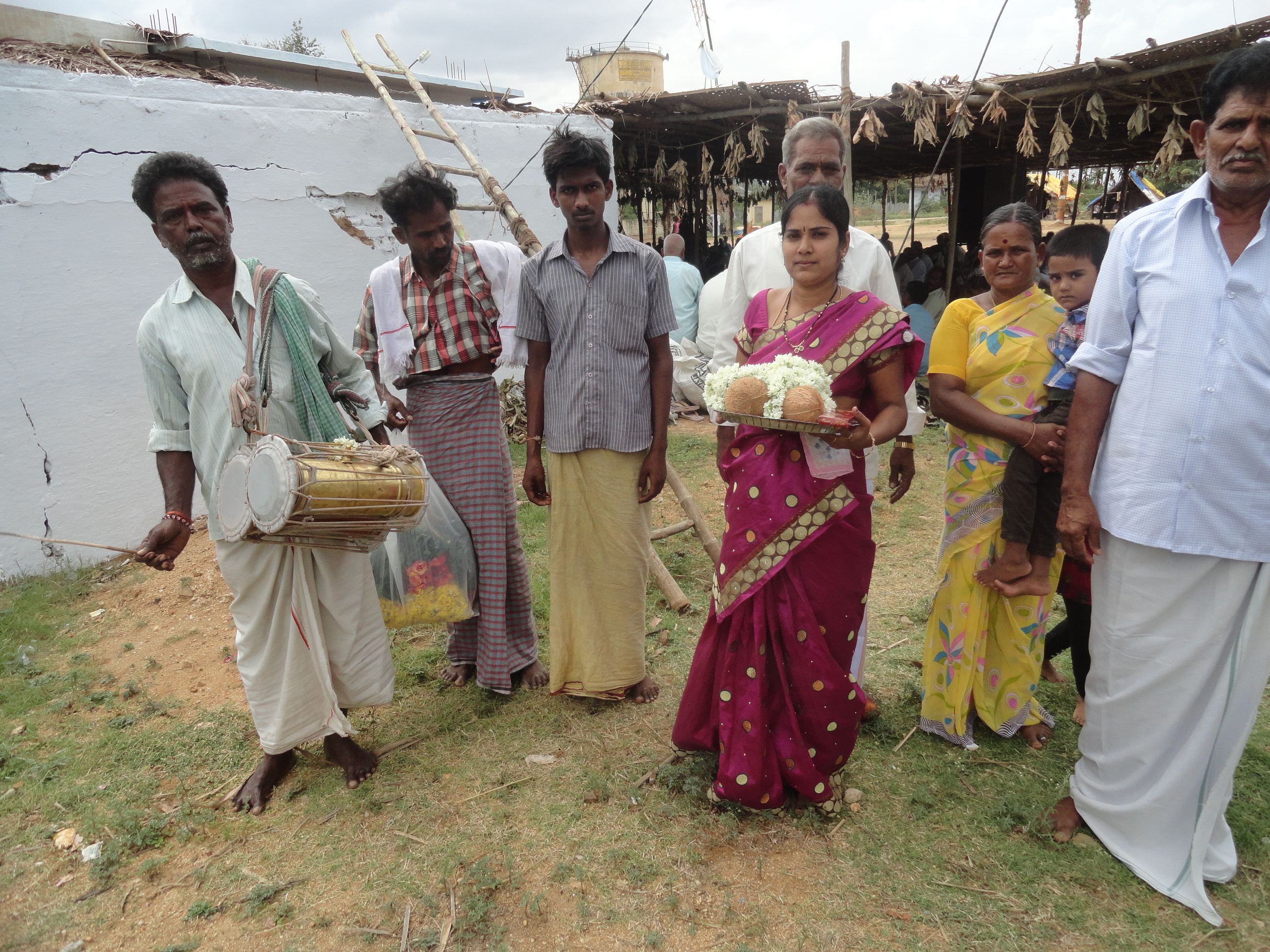 పూజకు వెళ్ళుతున్న స్త్రీలు. అక్కడ కనిపిస్తున్న వాయిద్యము పొమ్మలు. మొగరాలలో తీసిన చిత్రము